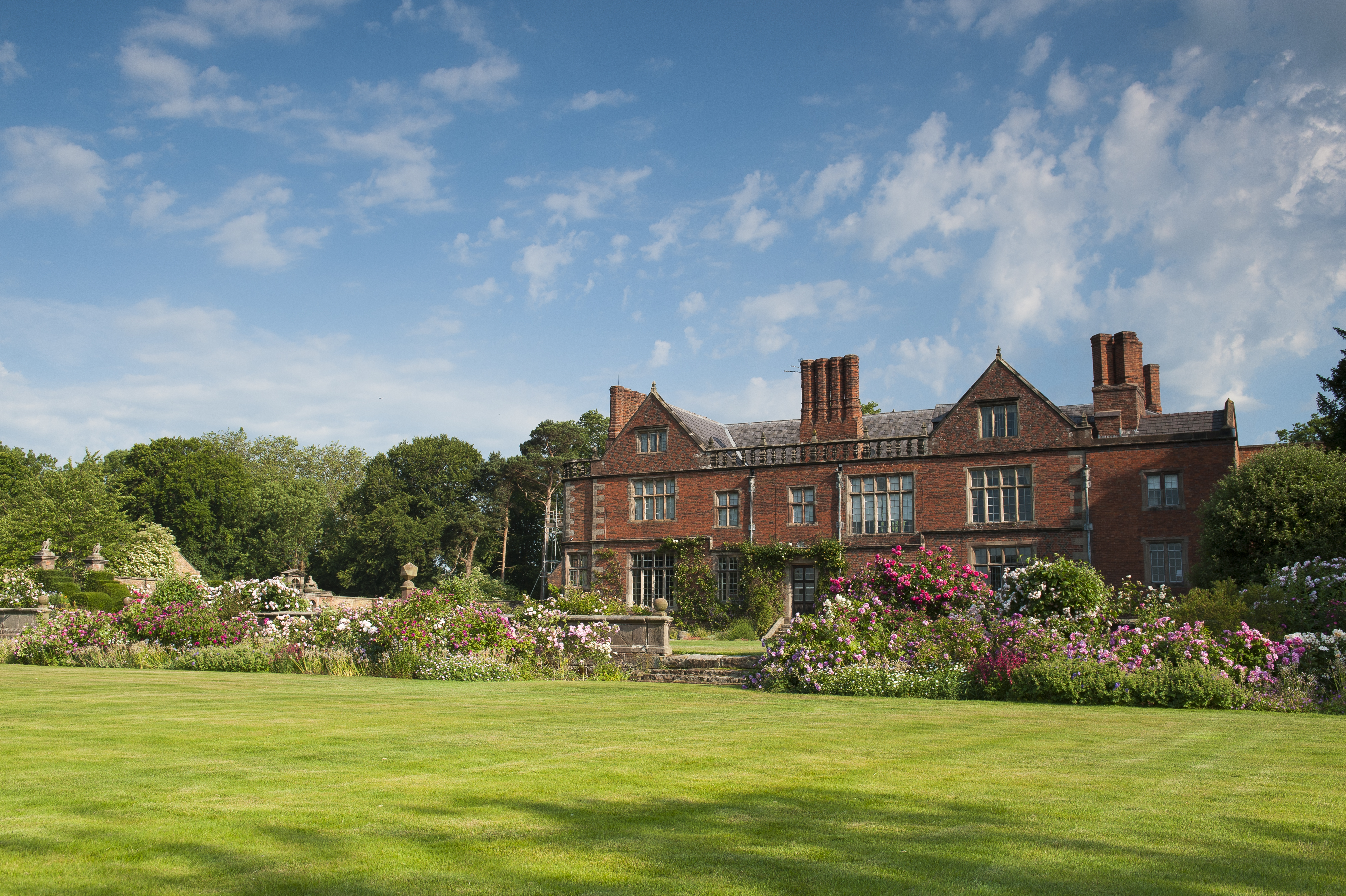 Photograph of Dorfold Hall from the South Lawns